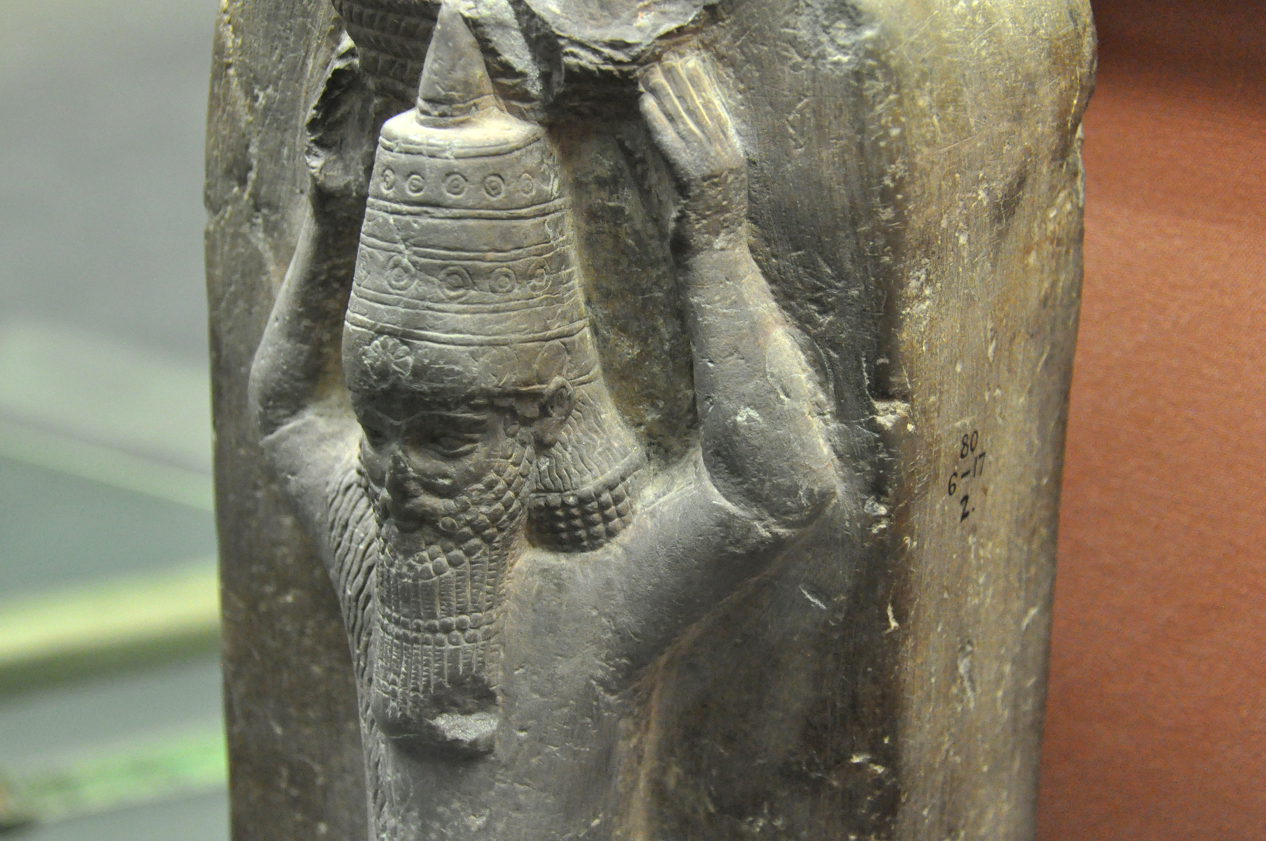 Detail of a stone monument of Ashurbanipal II as a basket-bearer. This monument records the restoration of the temple of Nabu and asks for a blessing on the king of Babylon, Shamash-shum-ukin. 668-655 BCE. From the temple of Nabu at Borsippa, modern-day Iraq and is currently housed in the British Museum, London.